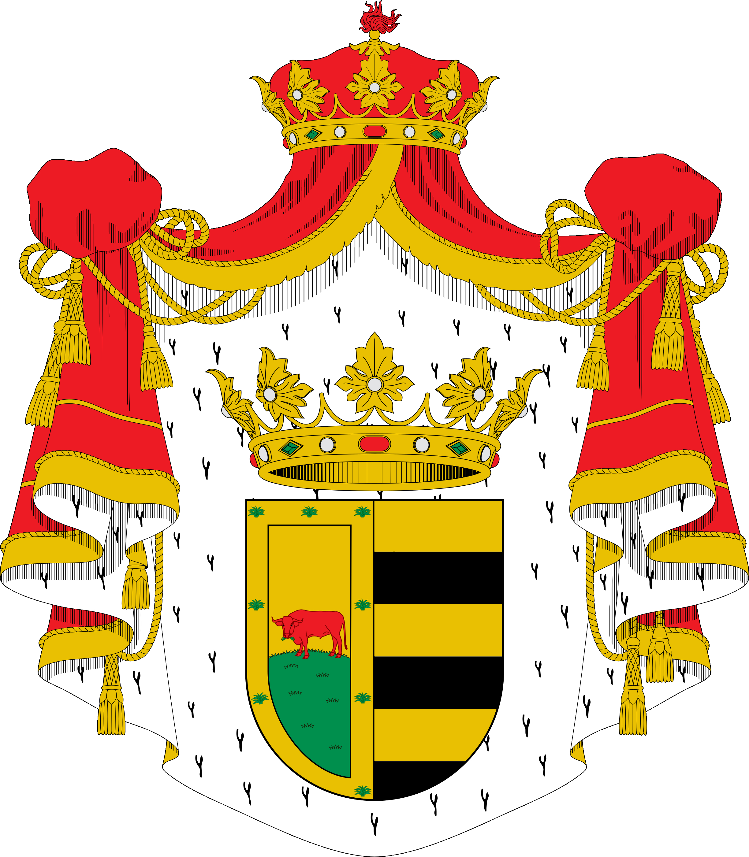 Coat of Arms of the House of Borgia, ducal crown and mantle largest Spain.